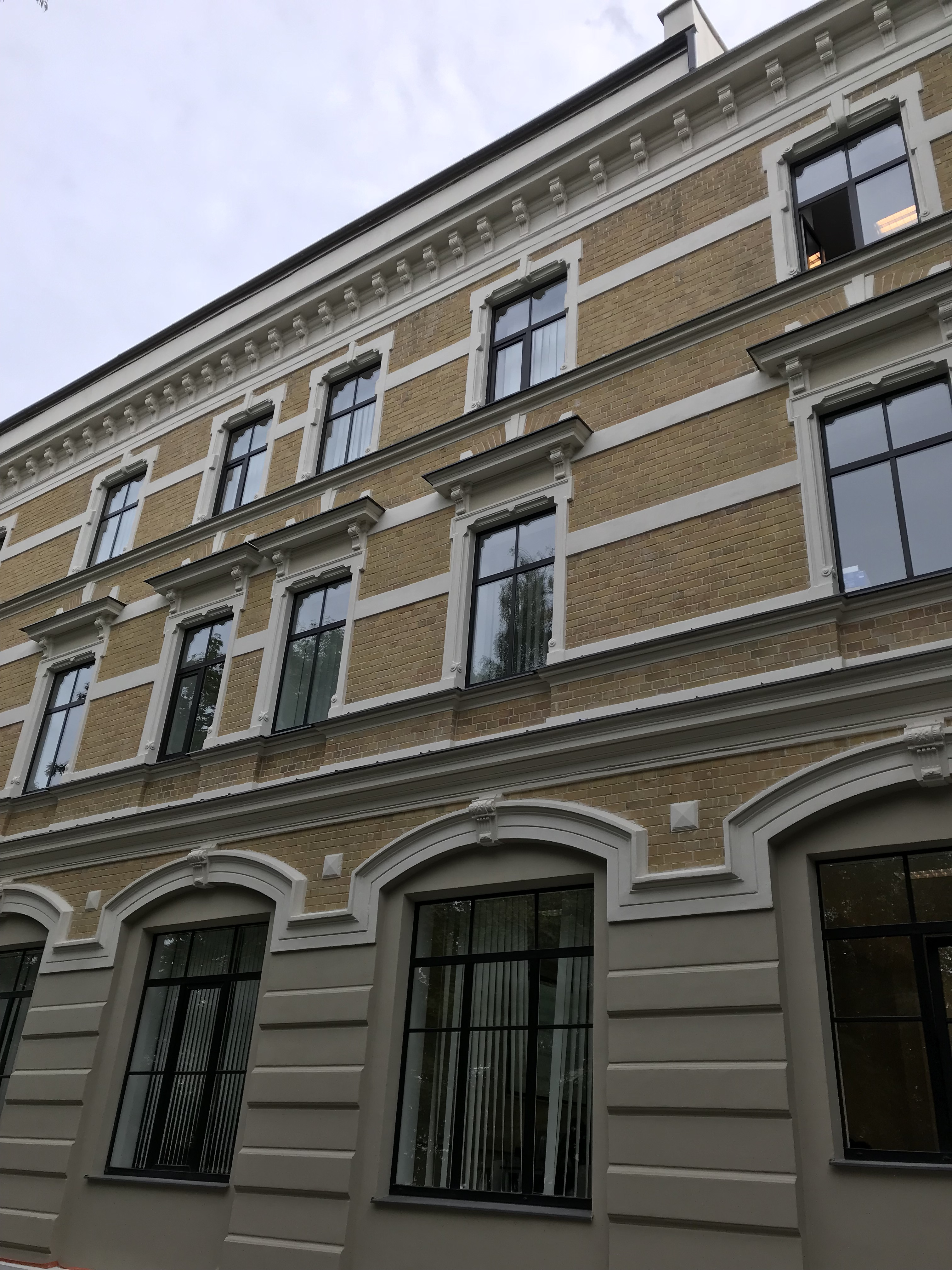 Frontview Entrance